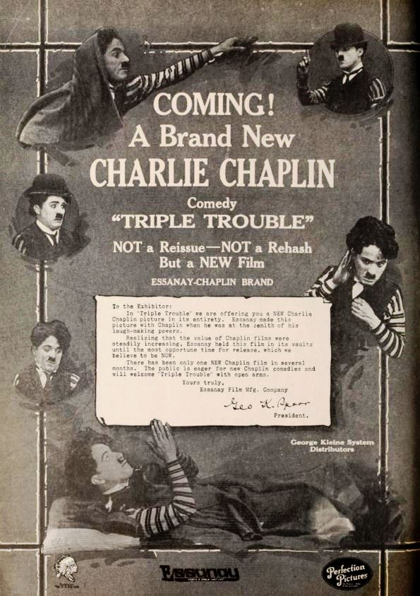 Advertisement for the American comedy film Triple Trouble (1918), which was created using outtakes from other Charles Chaplin films, on page 2 of the July 27, 1918 Exhibitors Herald.